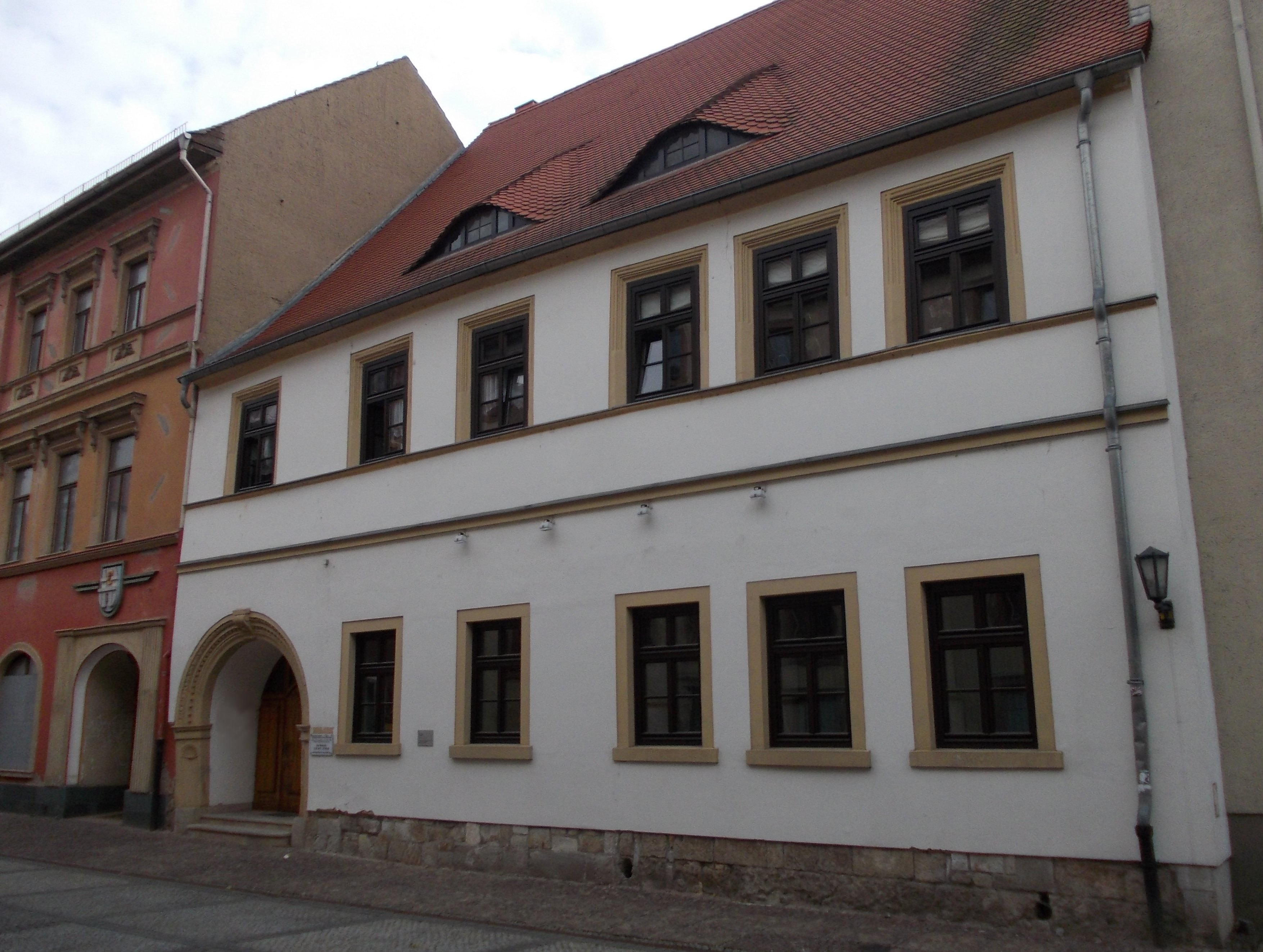 No. 12, Nikolaistrasse in Weissenfels (district: Burgenlandkreis, Saxony-Anhalt)